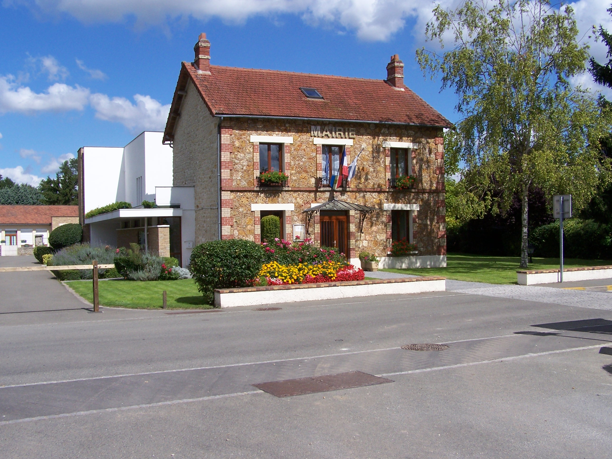 Hôtel de ville d'Aulnay-sur-Mauldre (Yvelines, France). Photo personnelle. Town hall of Aulnay-sur-Mauldre (Yvelines, France). Personal photo. Auteur/Author : ℍenry Salomé